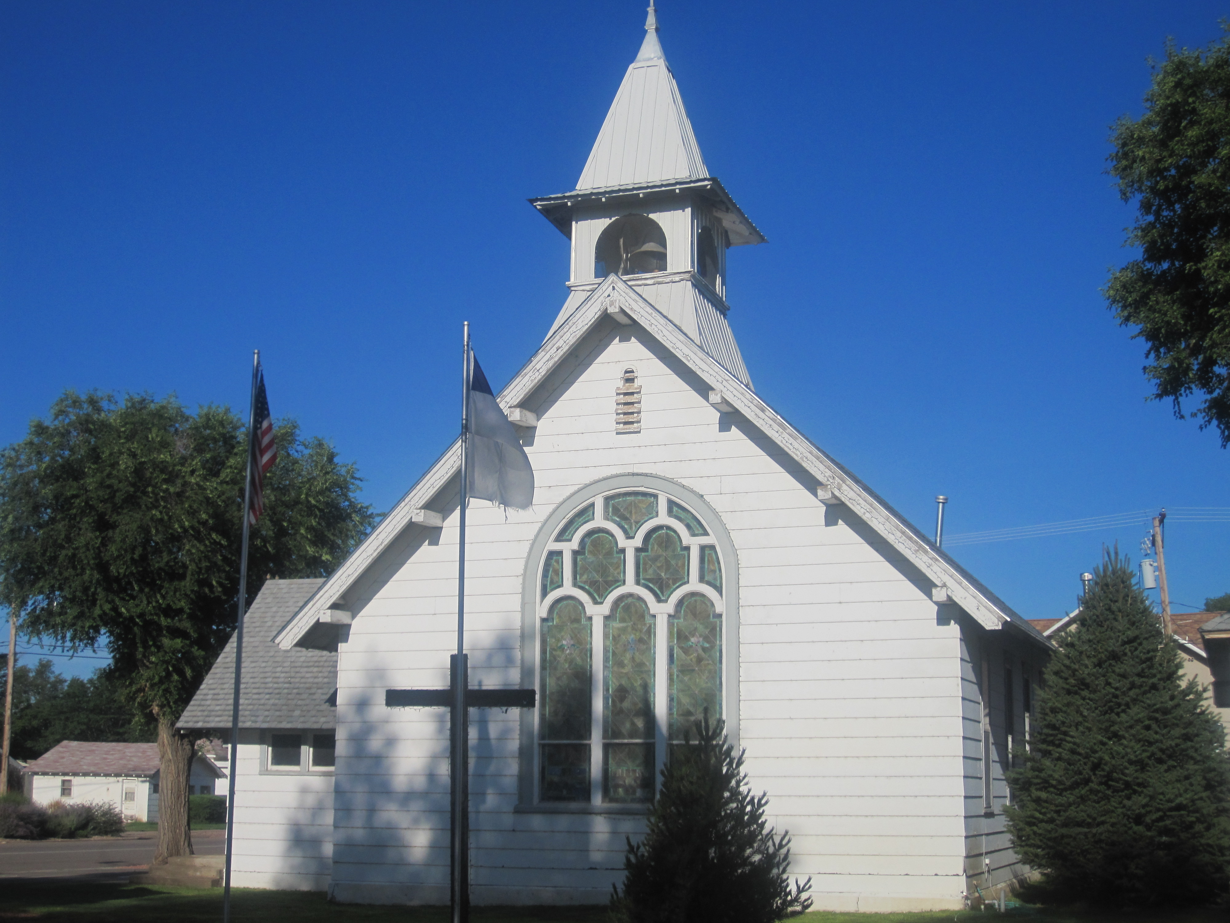 I took photo with Canon camera in Holly, CO.